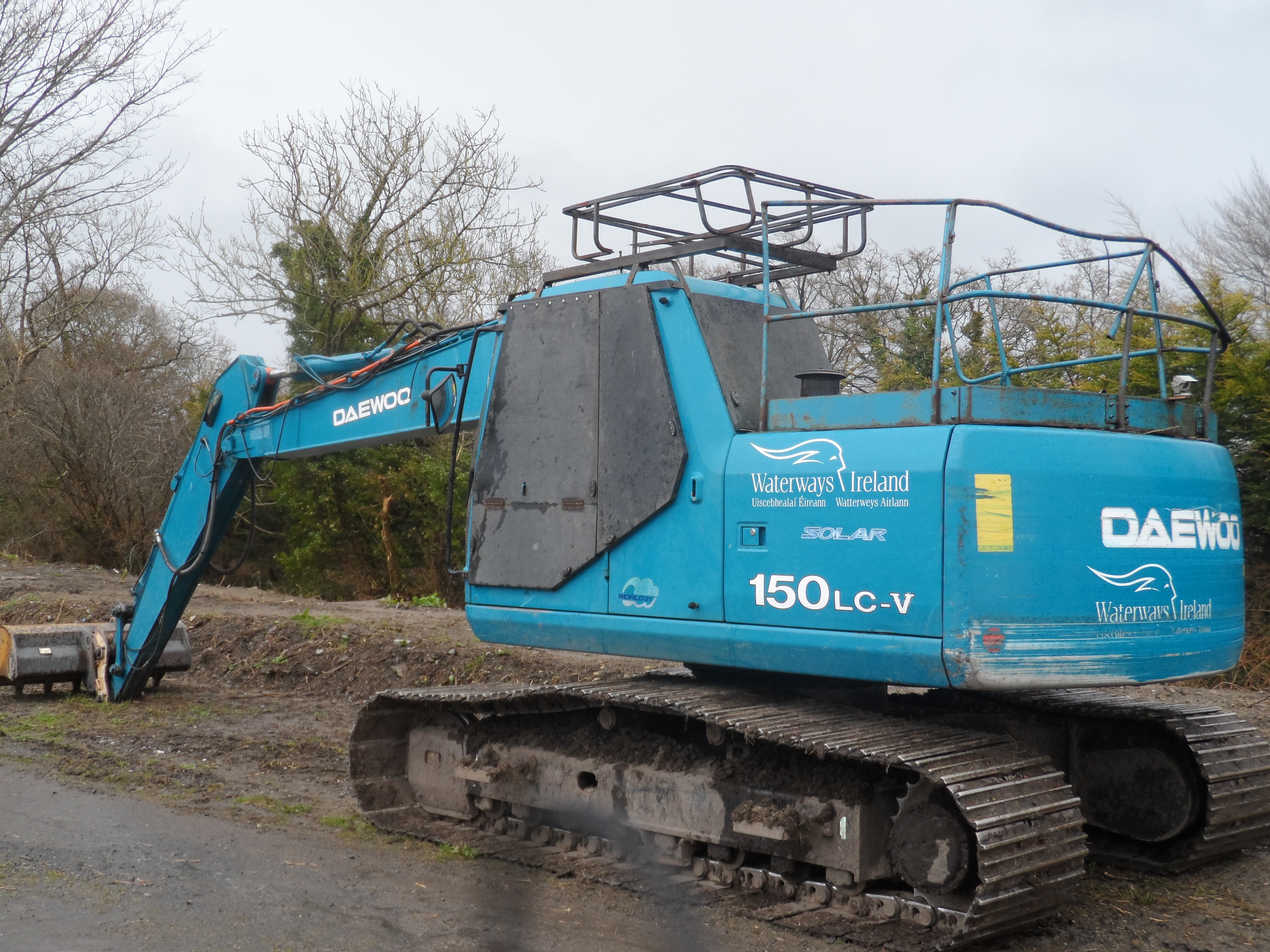 Daewoo digger